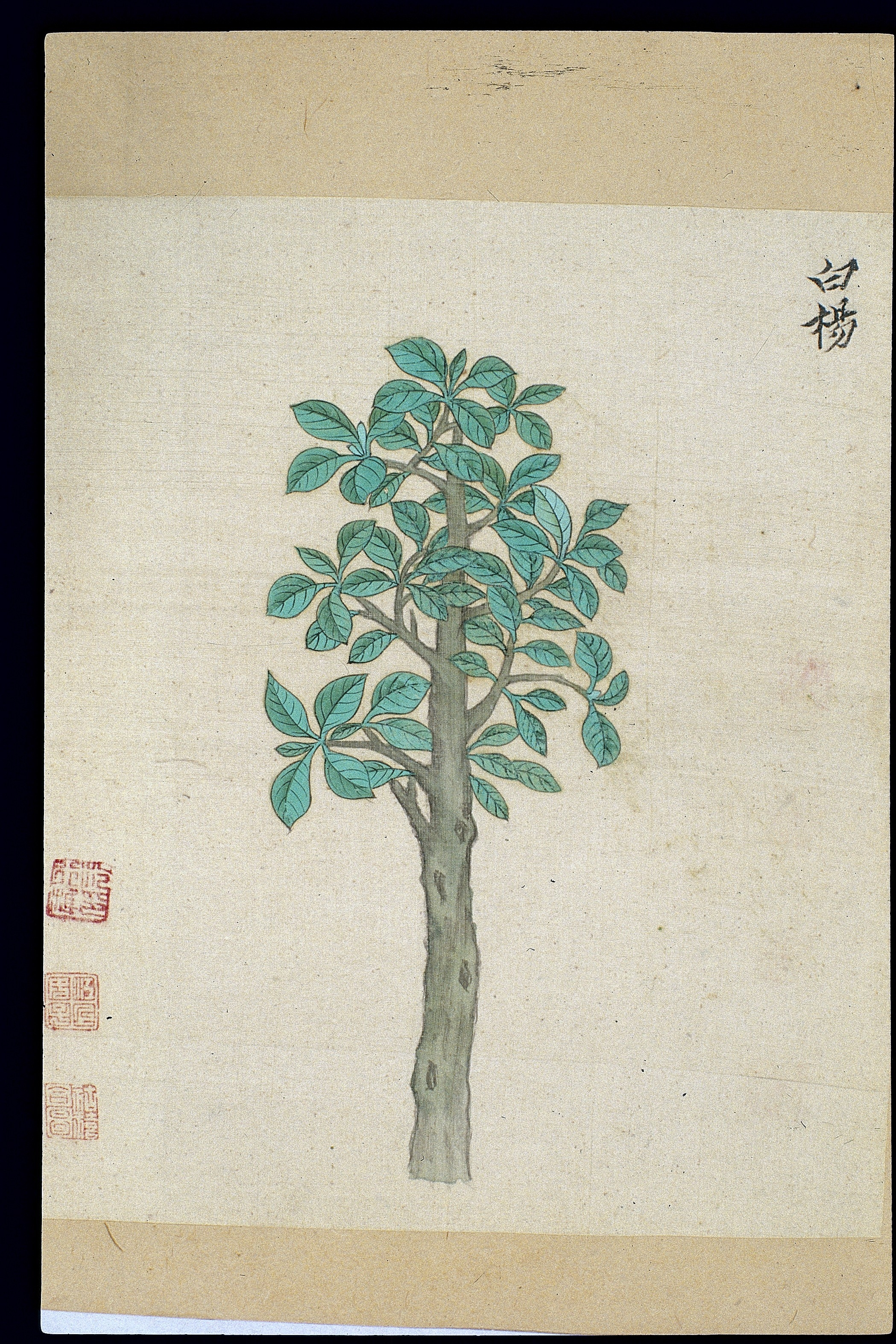 Painting of the white poplar/aspen (baiyang) in the meticulous (gongbi) style, in colour on silk, fromBencao tupu(Illustrated Herbal). The painted illustrations inBencao tupuwere jointly executed by Zhou Hu and Zhou Xi in 1644 (the final year of the Ming period). The explanatory texts were provided by Zhou Rongqi. The book was not completed: each volume was to have contained 14-15 paintings, but only 29 are extant.Zhou Rongqi writes: The white poplar/aspen, also known asduyao(lit. 'lone swayer'), grows everywhere. It propagates rapidly, and grows extremely tall. It has rounded, pear-shaped leaves and white bark. The wood is fine and smooth, and also hard and solid. When the wind blows through the leaves, they make a sound like rain. The bark and leaves are used in medicine. The bark of the aspen is bitter in sapor, cold in thermostatic character, and non-poisonous. It has the medicinal properties of dispelling wind, moving stagnations, and resolving phlegm. It is used to treat wind-blockage arthralgia (fengbi), beri-beri (jiaoqi), feeble limbs, clots of phlegm, goitres, etc. Aspen leaves can be boiled in water and used as a mouthwash to treat tooth decay. Pounded to a pulp and applied externally, they are a remedy for bone ulcers.Coloured Painting